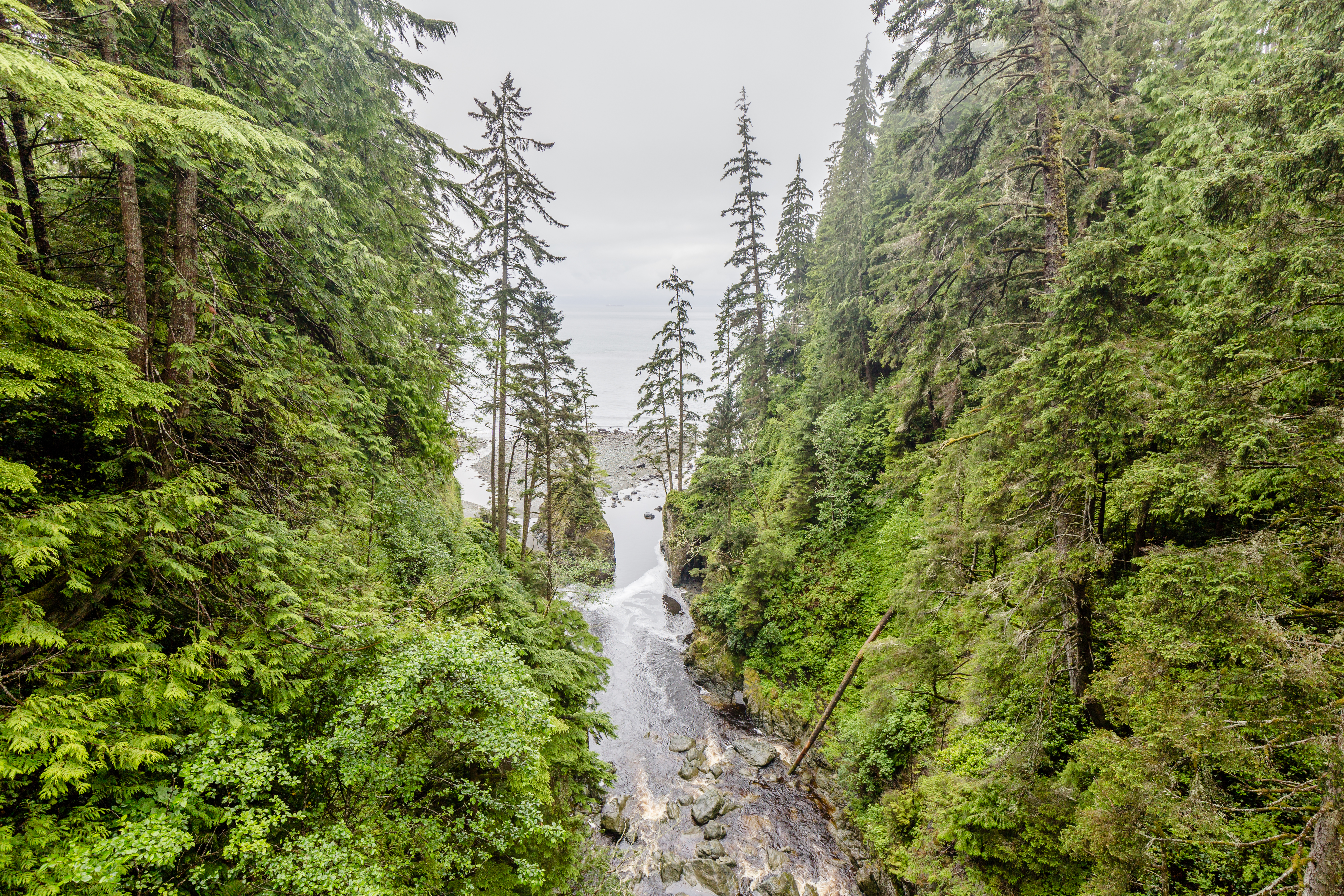 Loss Creek from suspension bridge on Juan de Fuca Trail, Vancouver Island, Canada